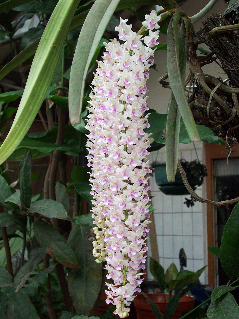 Rhynchostylis retusa, in West Java